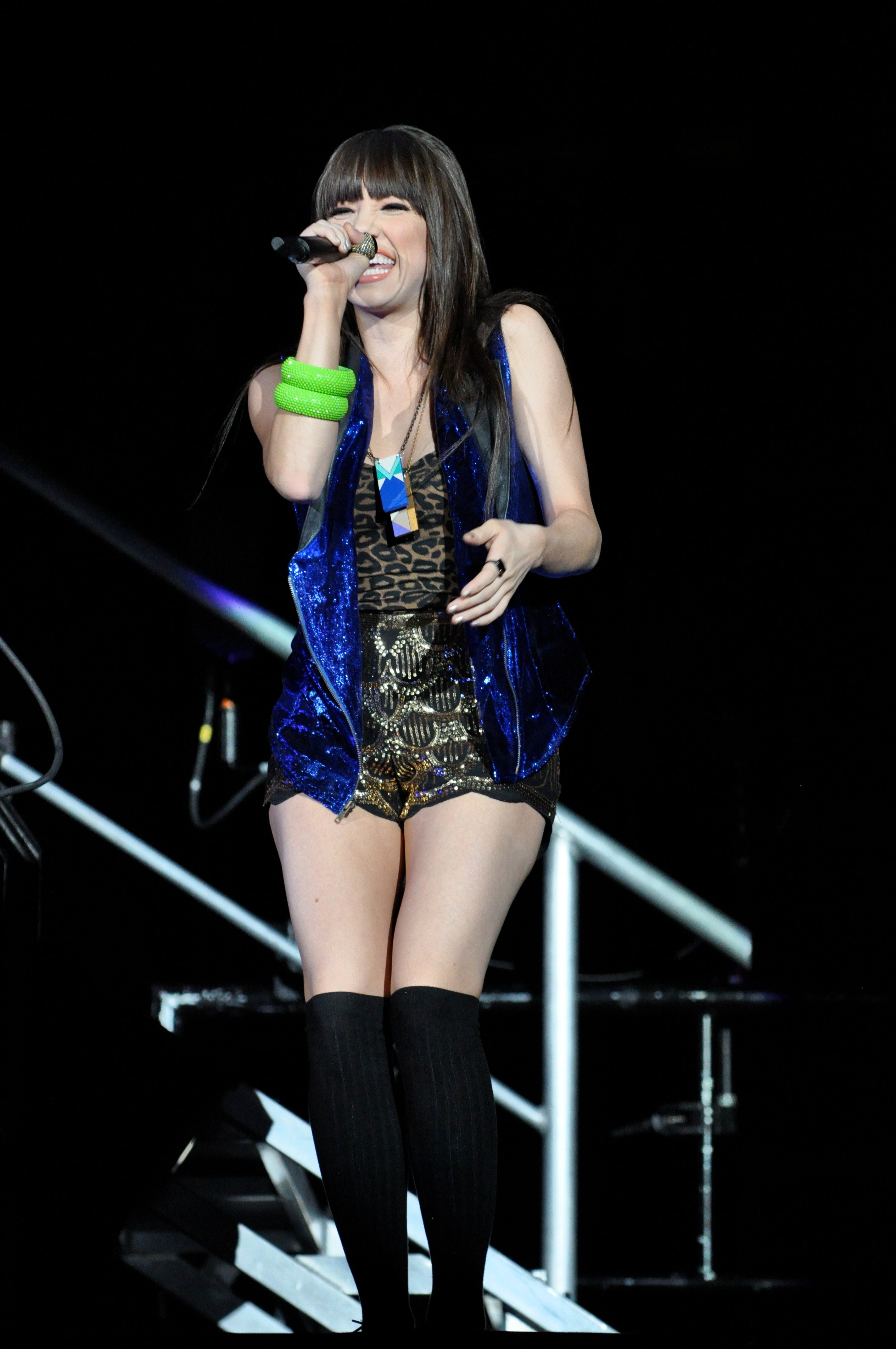 Carly Rae Jepson-DSC_0055-10.20.12